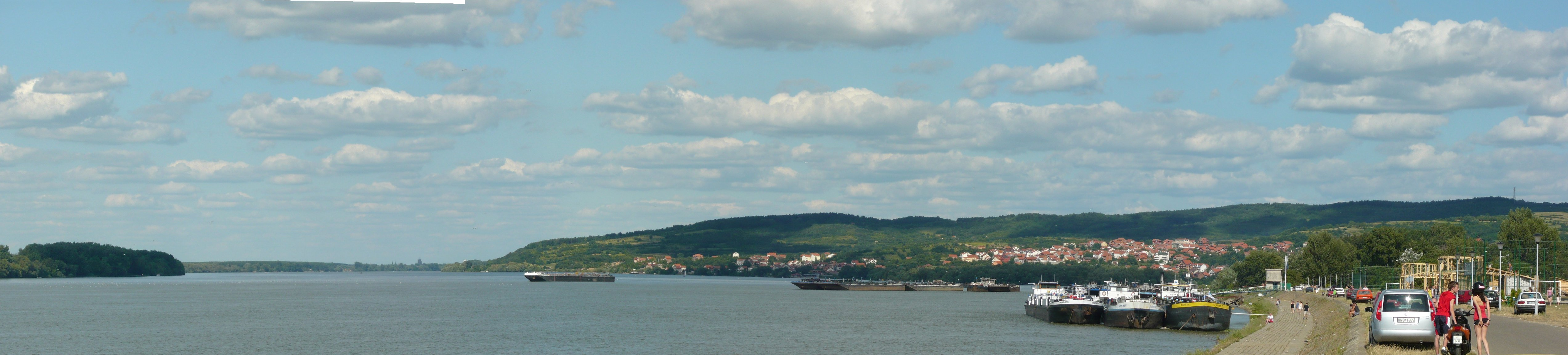 Višnjica, viewed from west.